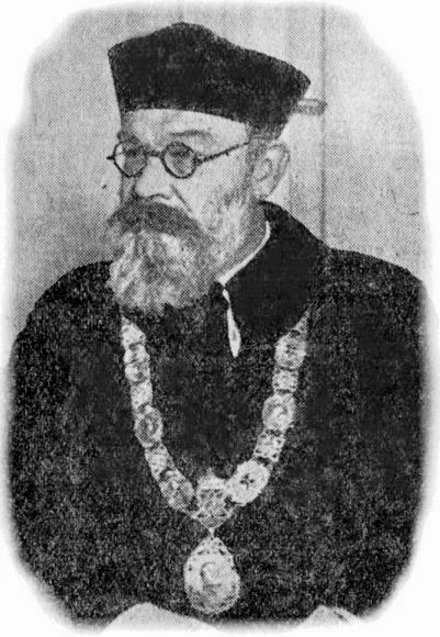 Ferenc Kováts (1873-1956) Hungarian historiographer